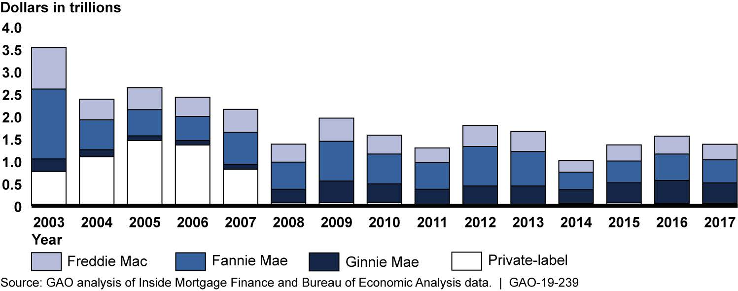 This image is excerpted from a U.S. GAO report: HOUSING FINANCE: Prolonged Conservatorships of Fannie Mae and Freddie Mac Prompt Need for Reform Note: Fannie Mae and Freddie Mac purchase mortgages and issue and guarantee mortgage-backed securities (MBS). Ginnie Mae guarantees MBS backed by federally-insured mortgages. Private-label MBS do not have a government guarantee.